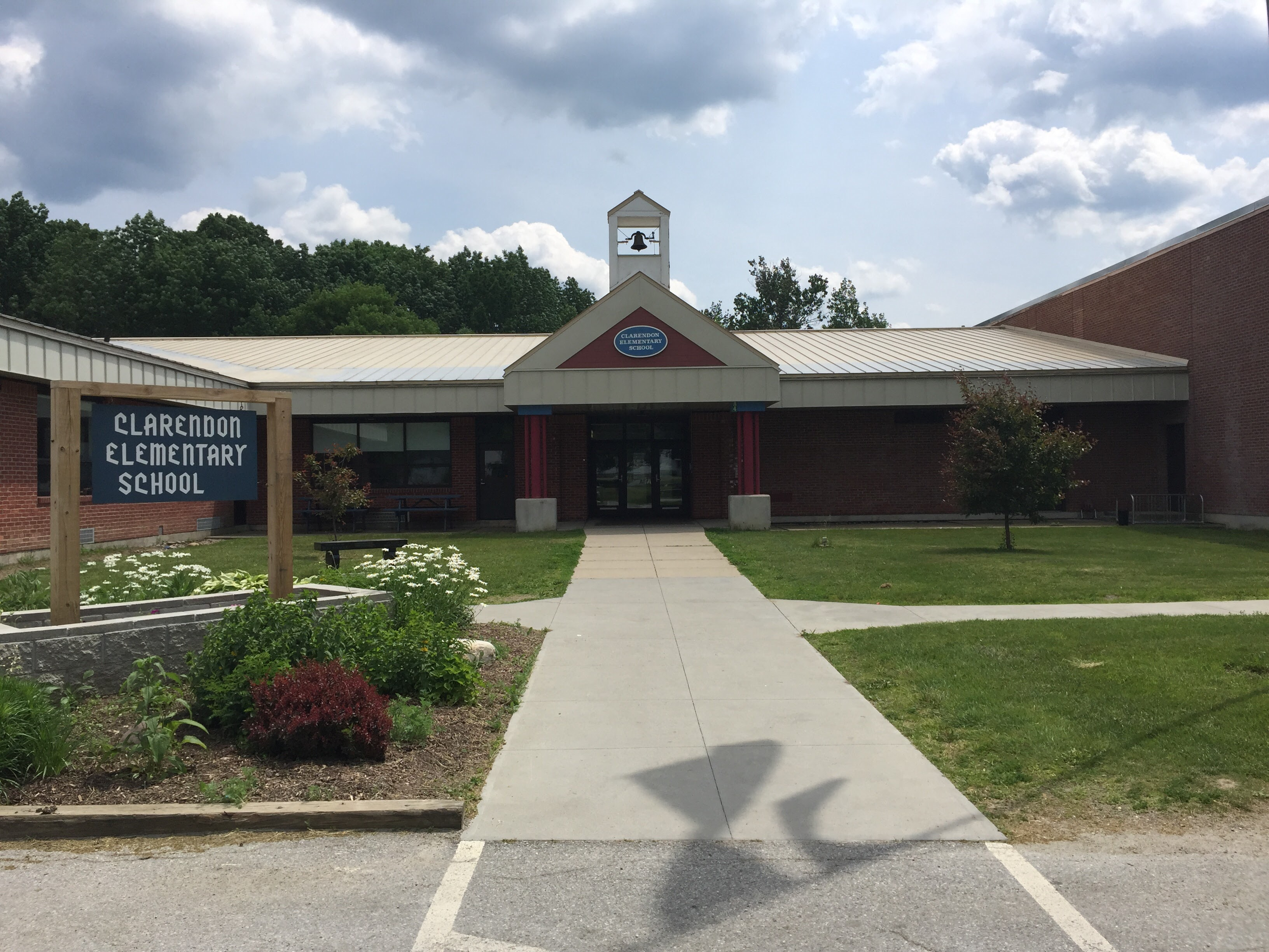 A photo of the front of Clarendon Elementary School, June 2017